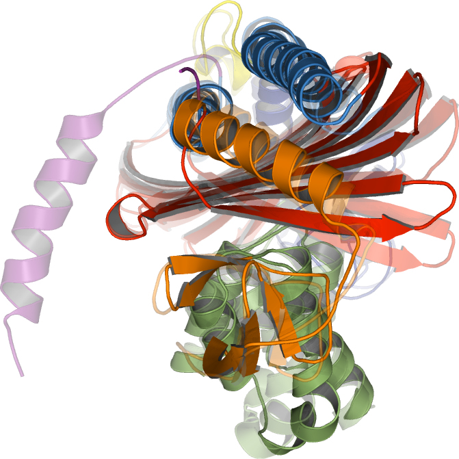 Capping proteins (CP) play a major role in regulating actin filament dynamics by blocking the addition and loss of actin subunits. Two major variants of CP have been determined: a cytoplasmic form that is also termed Cap32/34 and an isoform found in the Z-discs of skeletal muscle that is often called CapZ. CP is a heterodimeric protein that is expressed in all eukaryotic organisms. The crystal structure of CapZ has provided valuable insight into the atomic architecture of CP found at the Z-discs of skeletal muscles. However, until now a high-resolution structure of the cytoplasmic variant has not been available. By characterizing the atomic structure of Cap32/34 from the cellular slime mold Dictyostelium discoideum as a model for cytoplasmic CP and comparing it to that of CapZ, structural and functional differences between the two CP isoforms can be elucidated. This image shows orthogonal views of Cap32/34 superposed onto CapZ over the Cα positions of the entire CP molecules. From "Conservation and divergence between cytoplasmic and muscle-specific actin capping proteins: insights from the crystal structure of cytoplasmic Cap32/34 from Dictyostelium discoideum" Christian Eckert, Agnieszka Goretzki, Maria Faberova and Martin Kollmar BMC Structural Biology 2012, 12:12